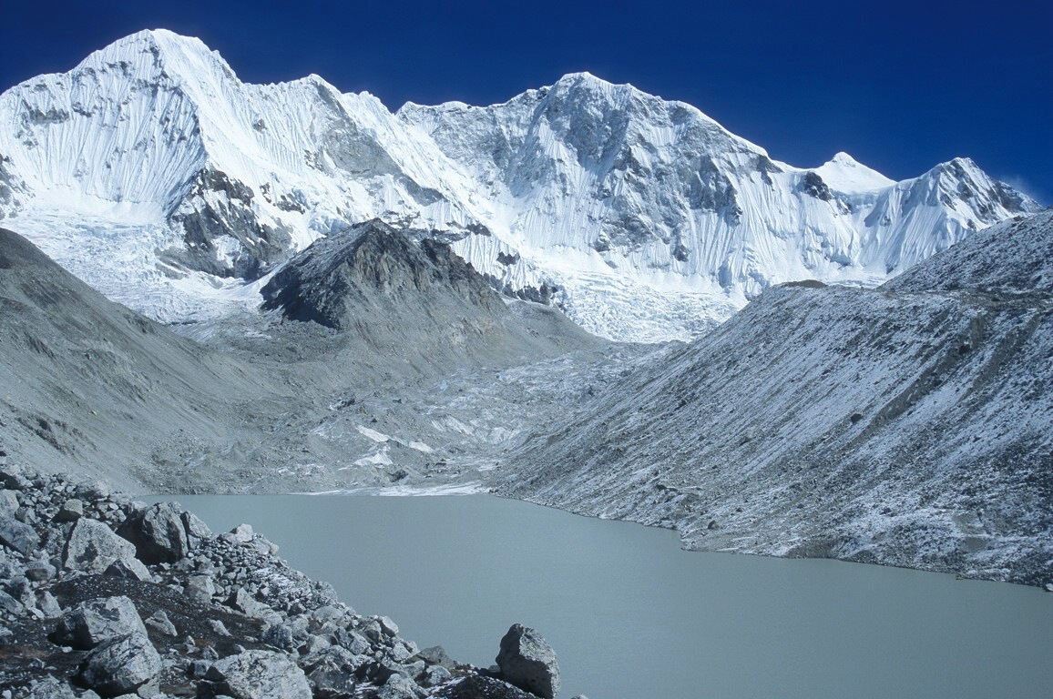 mountain Baruntse seen from the Hongu valley.